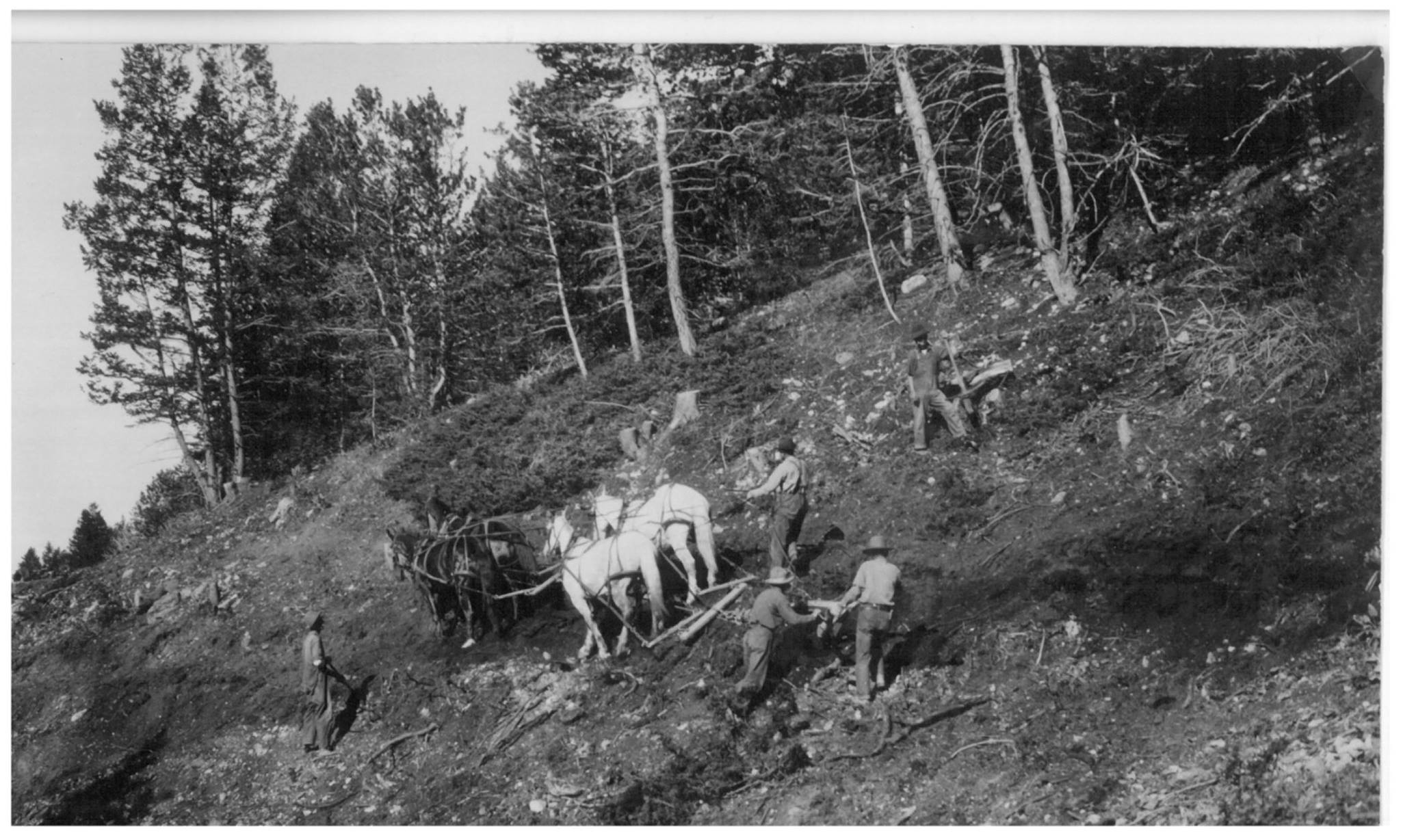 U S Highway 14 is being reconstructed this summer. Be prepared for delays between Burgess Junction and Granite Pass. This photo shows construction of the Dayton-Kane road across the Bighorns in the 1920s.